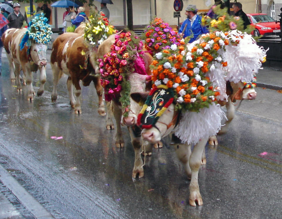 cattle drive (cattle drive down from the alp). The seasonal transfer of grazing cows to different pastures.